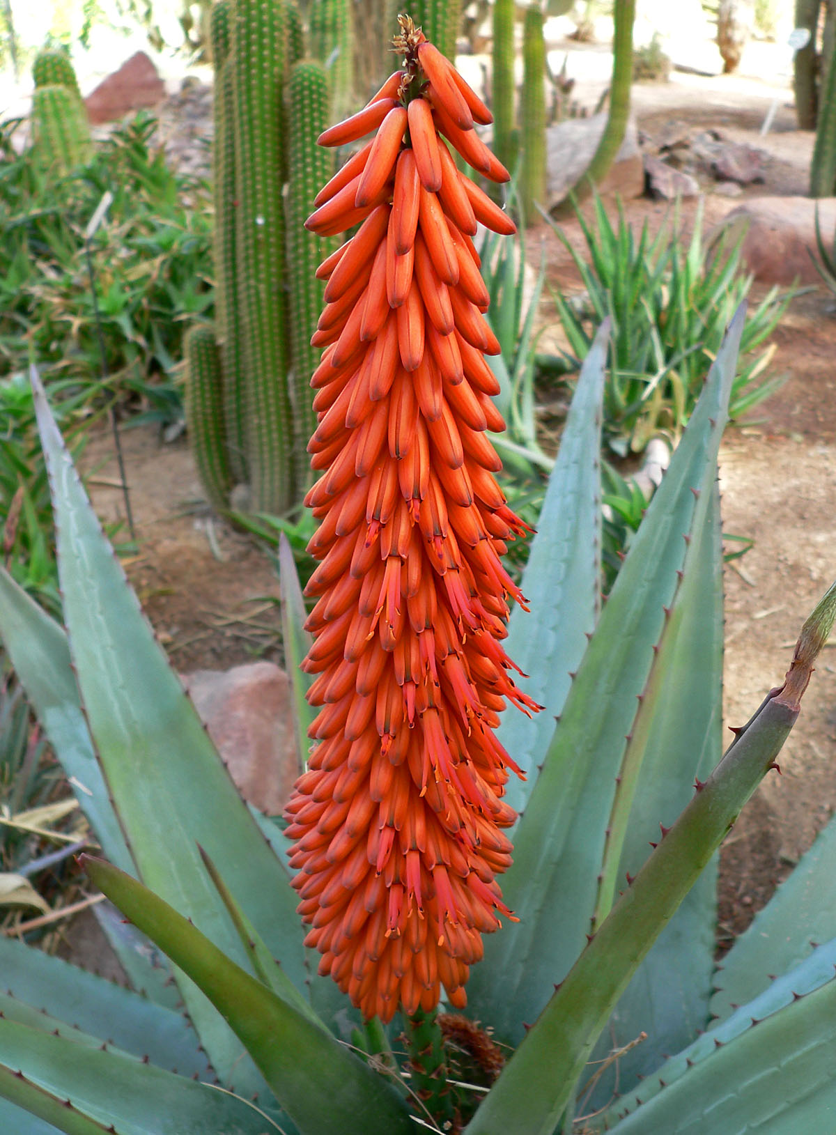 Aloe ferox at the Springs Preserve garden, Las Vegas, Nevada